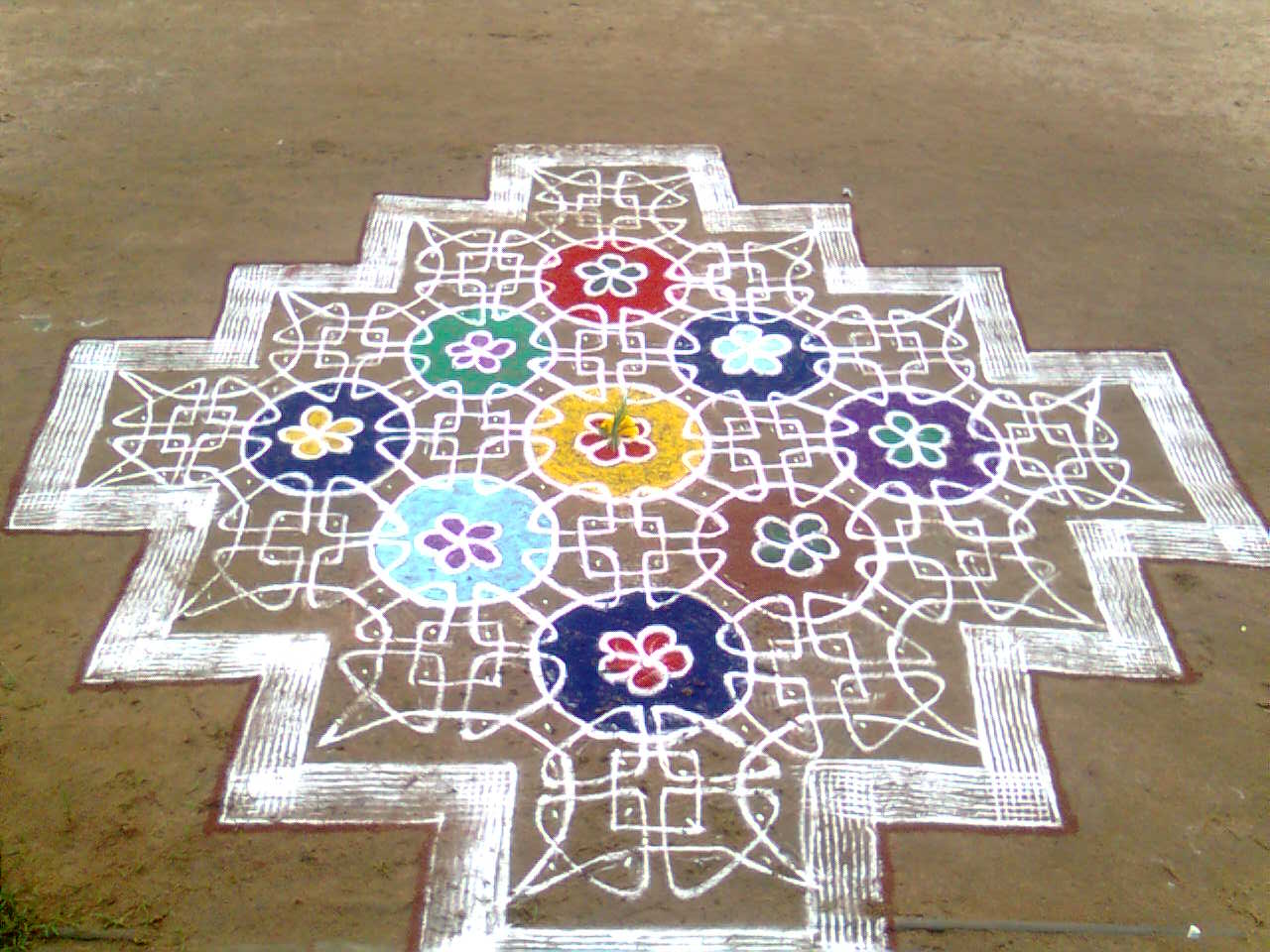 SUPERB MARGAZHI